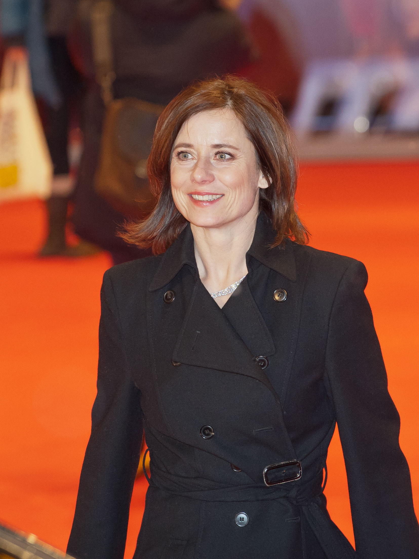 German actress Inka Friedrich at the Berlin Film Festival 2013